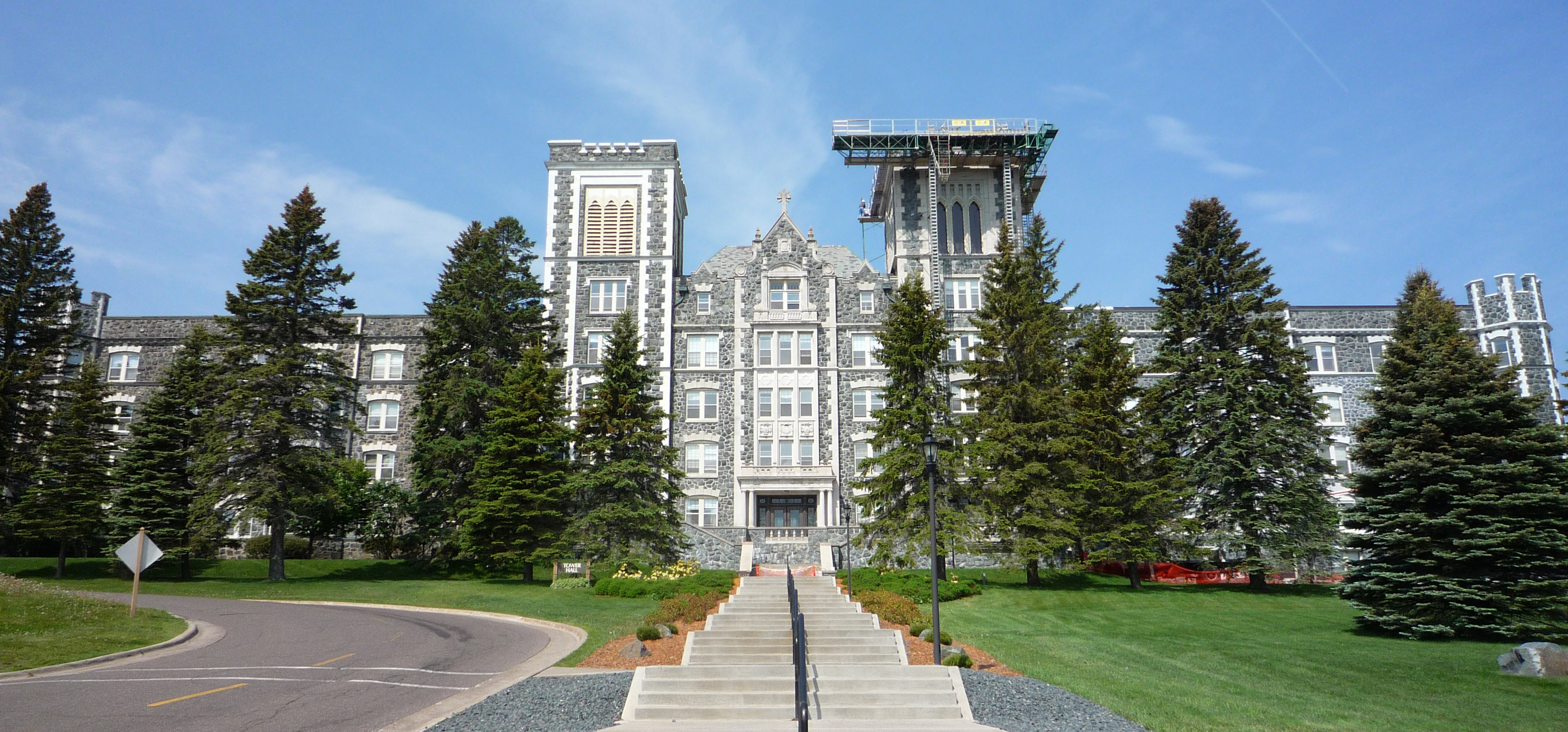 The iconic Tower Hall, The College of St. Scholastica, Duluth, Minnesota, USA.